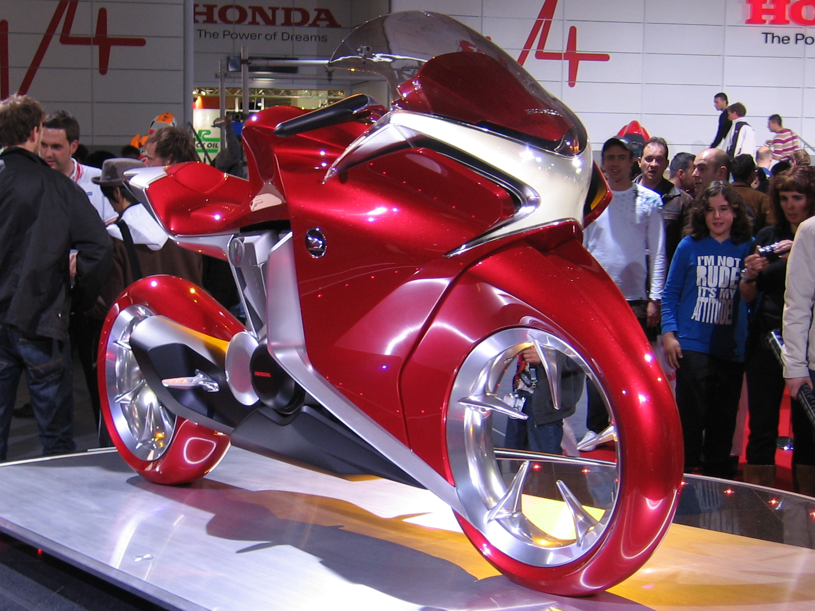 Honda V4 Concept Model at Intermot 2008, Cologne, Germany